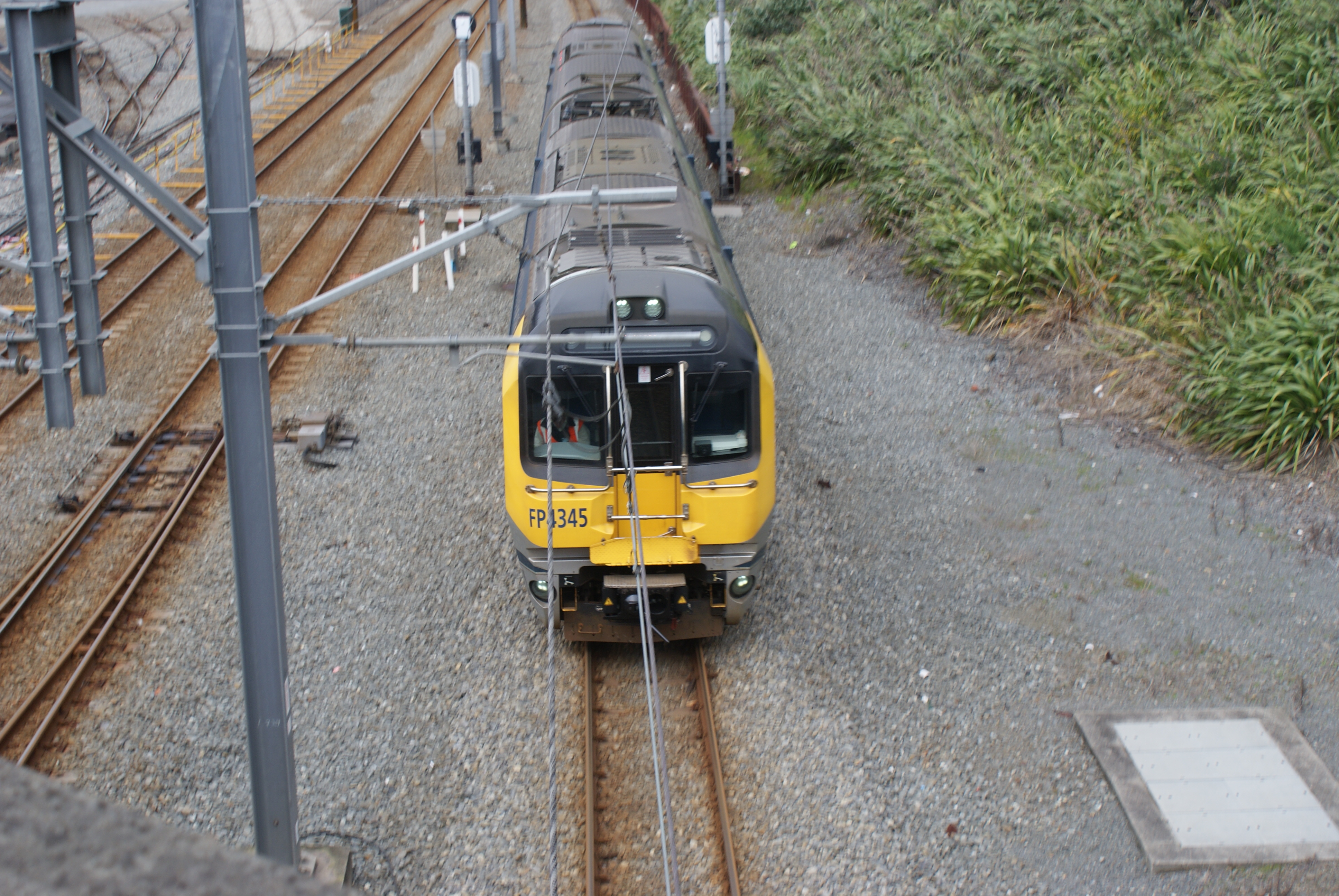 Taken from the Aotea Quay bridge over the NIMT. This is a northbound Kapiti line train which has just left Wellington station and will soon pass under Newlands and head towards Porirua